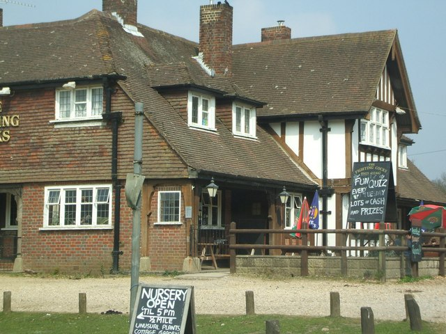 The Fighting Cocks, Godshill